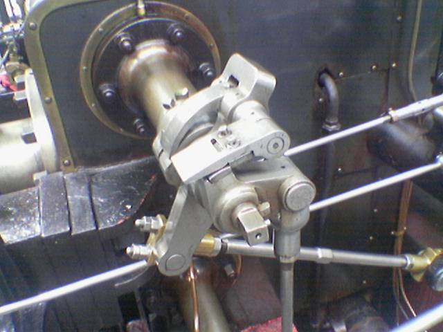 The original image was taken by me in Manchester in the Museum of Science and Industry in Manchester. This was obtained using a Java edge detection program I wrote. If you want the source code leave me a message.